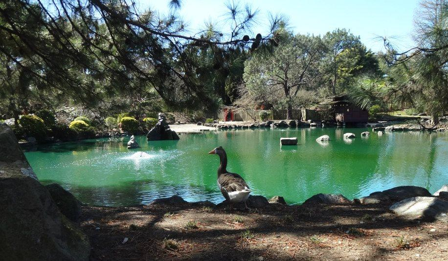 A lakeview of the Auburn Botanical Gardens.